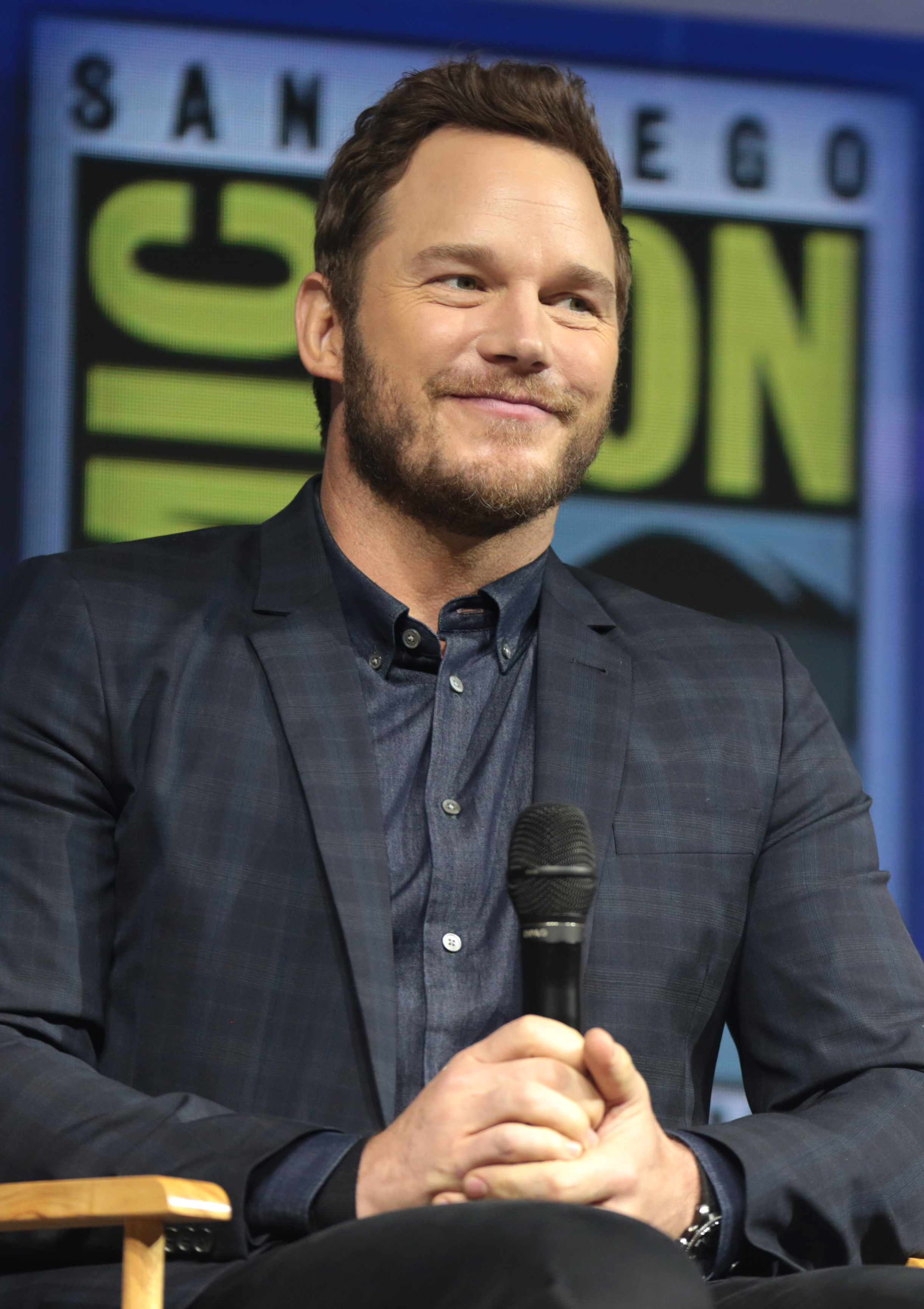 Chris Pratt speaking at the 2018 San Diego Comic-Con International in San Diego, California.